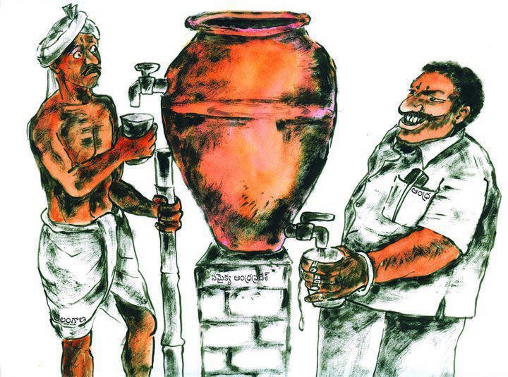 In India UPA government is relying on the trickle down theory- which will not work for the benefit of common citizen as there is not income limit law for the rich or proper taxation system functioning in the country.